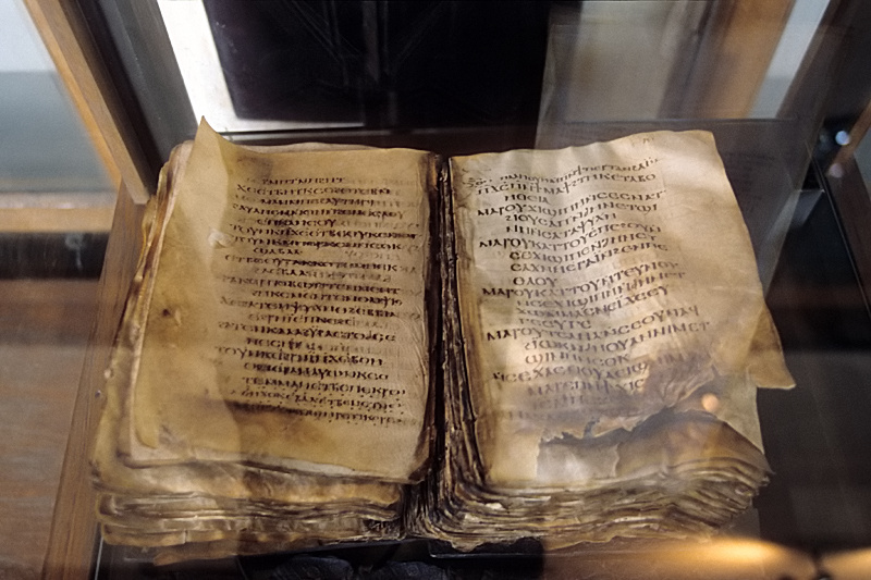 Psalter from el-Mudil near Beni Suef, Coptic Museum, Cairo, Egypt